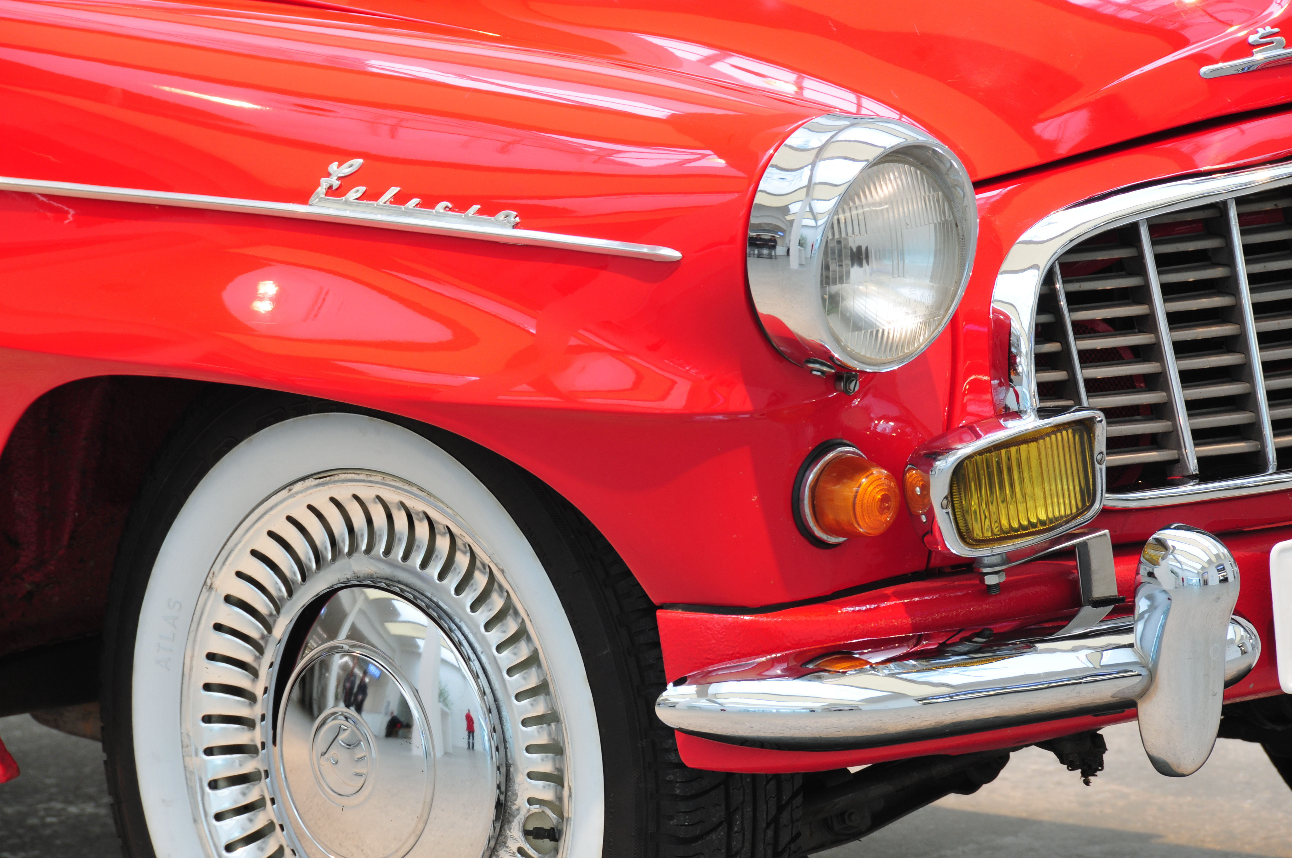 Škoda Felicia (1961); Detail